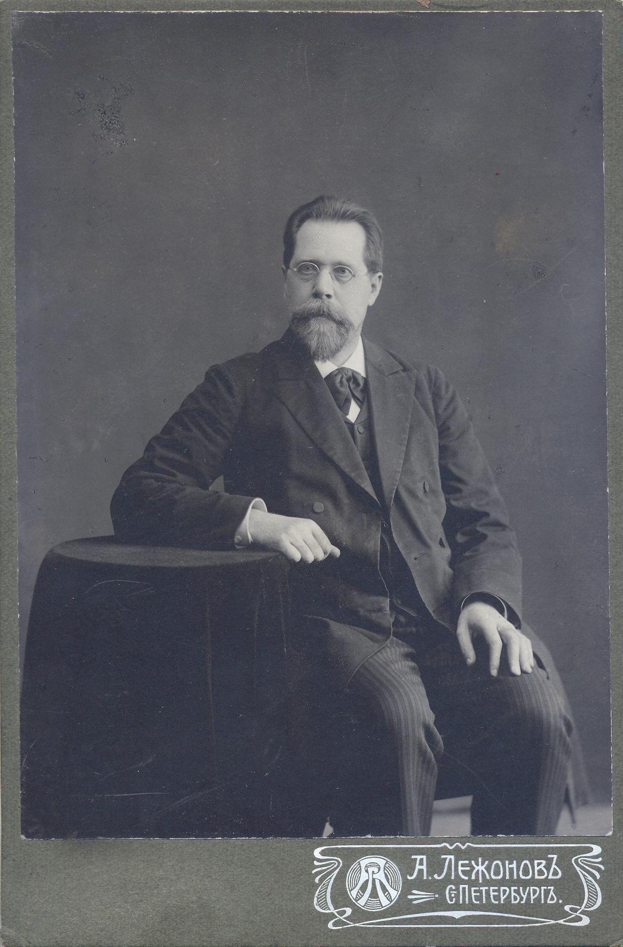 Russian Orthodox theologist Nikolay Nikanorovich Glubokovski